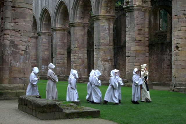 Choir Monks for a Day A group of school children on a study day at Fountains Abbey spend a day experiencing life as a choir monk. Here they cross the nave to the sound of a bell rung by the leader.